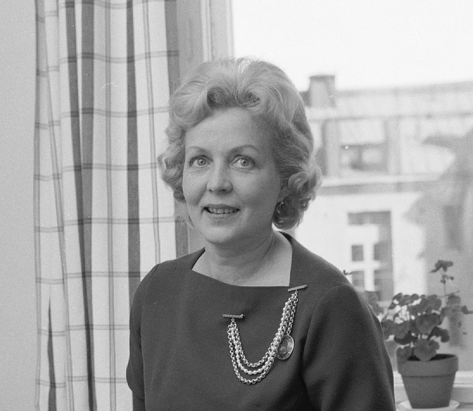 Photograph of the Finnish actress Helena Kara (1916–2002).